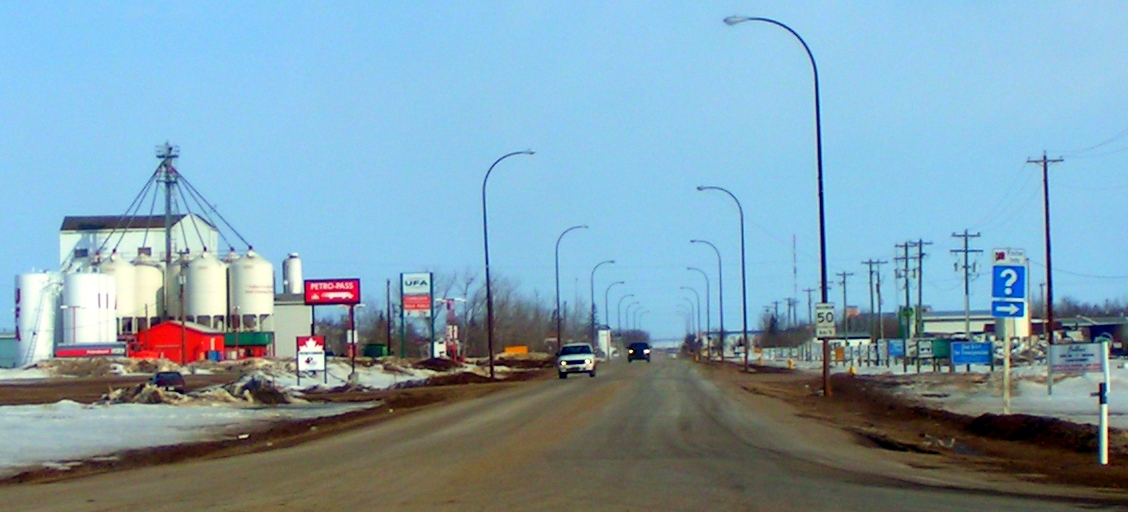 Main street in Falher, Alberta, Canada